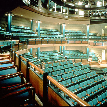 Audience chamber of the Booth Playhouse, one of three theatres in the North Carolina Blumenthal Performing Arts Center in Charlotte, North Carolina, United States.